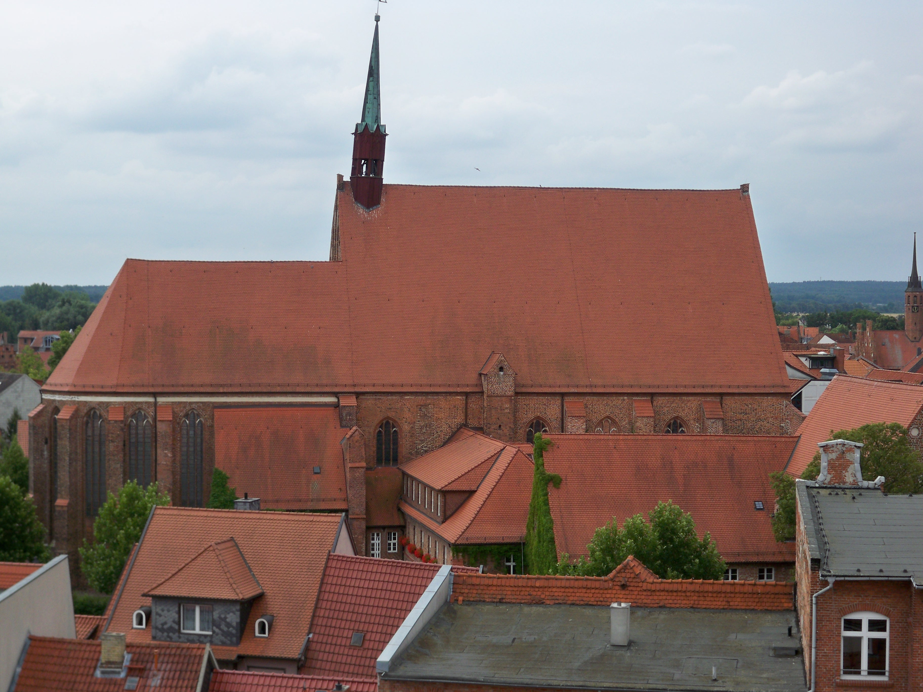 Mönchskirche Salzwedel seen from tower of Neustädter Rathaus